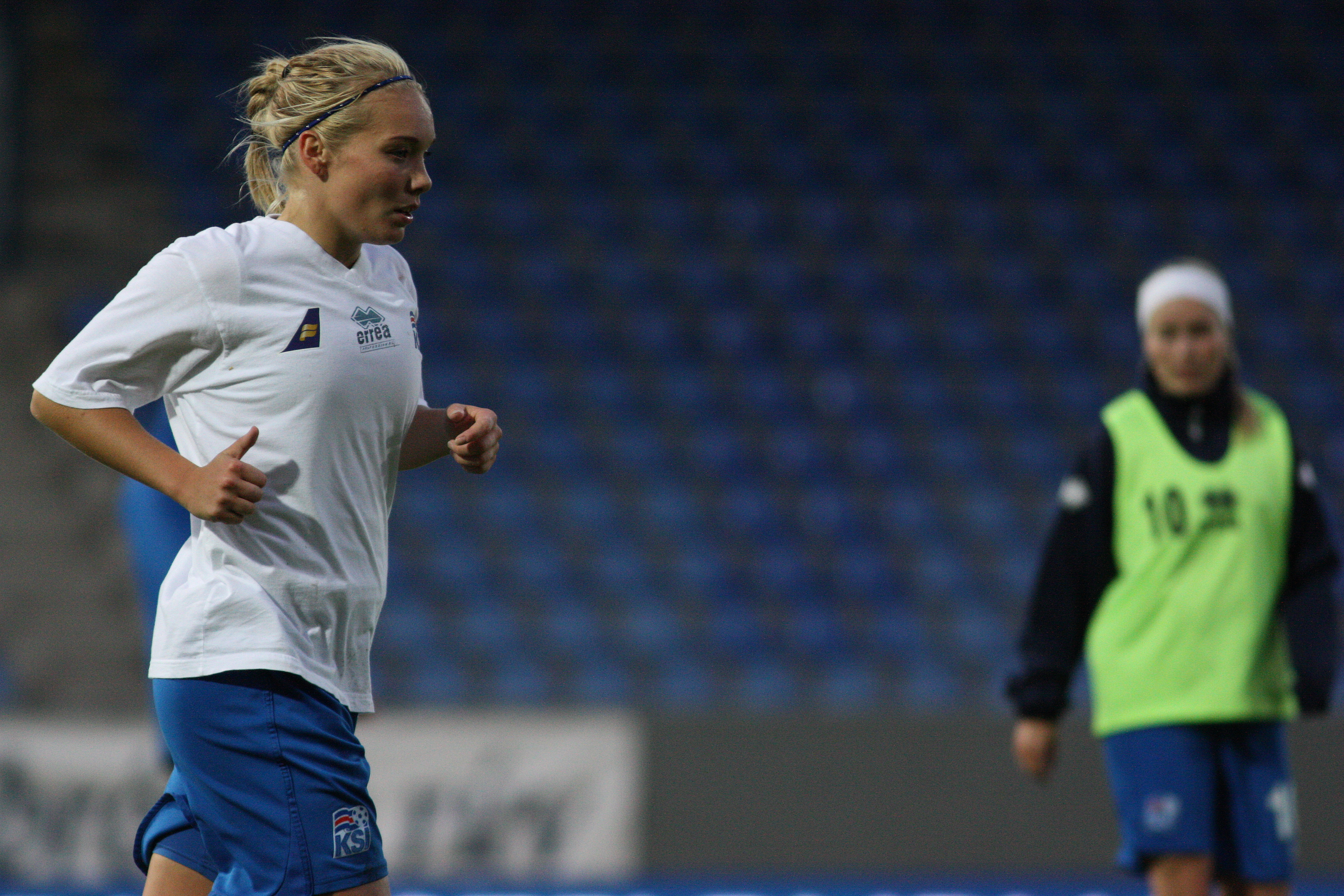 Margrét Lára Vidarsdóttir and Hólmfrídur Magnúsdóttir, who scored a hat trick each, and captain Katrín Jónsdóttir, who scored two goals, where the game’s most successful shooters.